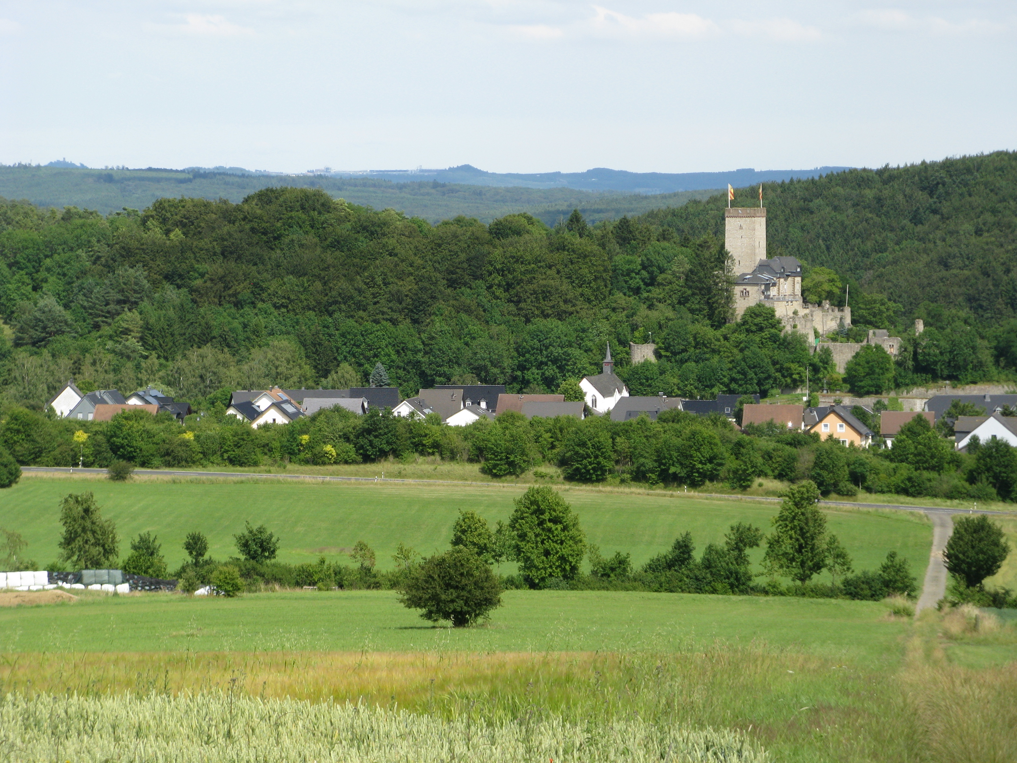 Kerpen castle in Kerpen (Eifel), Rhineland-Palatinate, Germany